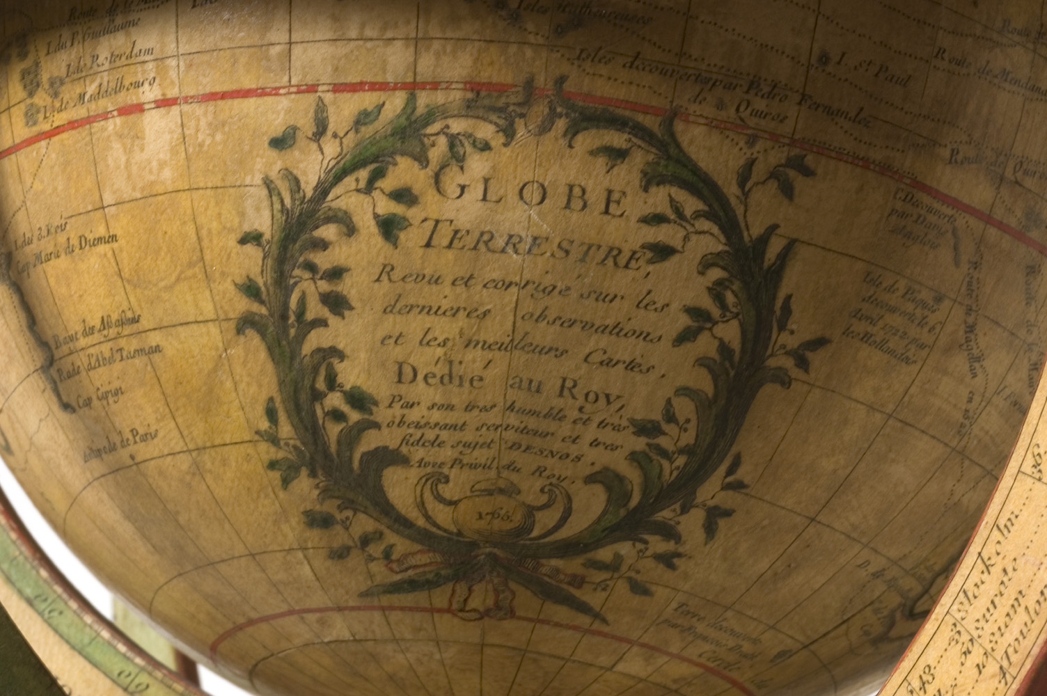 de l'Isle globe, 1765 Detail showing Cartouche of the 1765 de l'Isle Globe. Collection of the Minnesota Historical Society